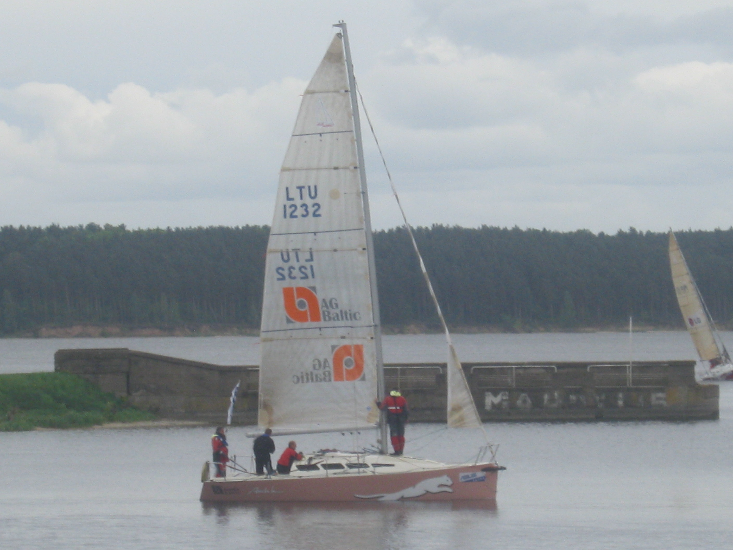 RS-280 Lithuanian Cup 2012 Stage 2. „Arabela“ (kap. Raimondas Šiugždinis)